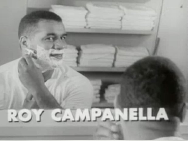 Roy Campanella shaving, from an old commercial for Gillette Super Speed razors.